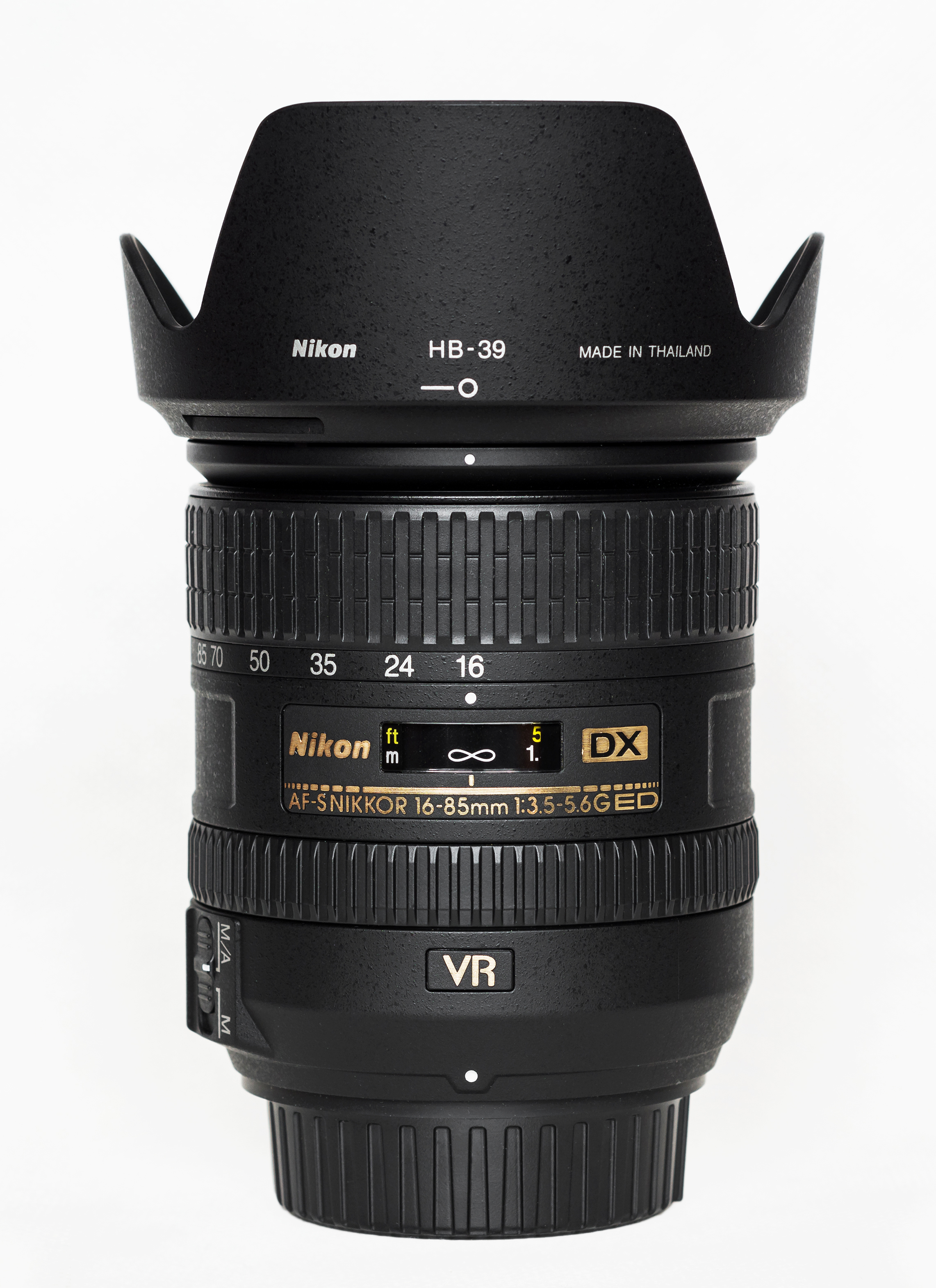 Nikkor AF-S DX 16-85 mm f/3.5-5.6G ED VR lens